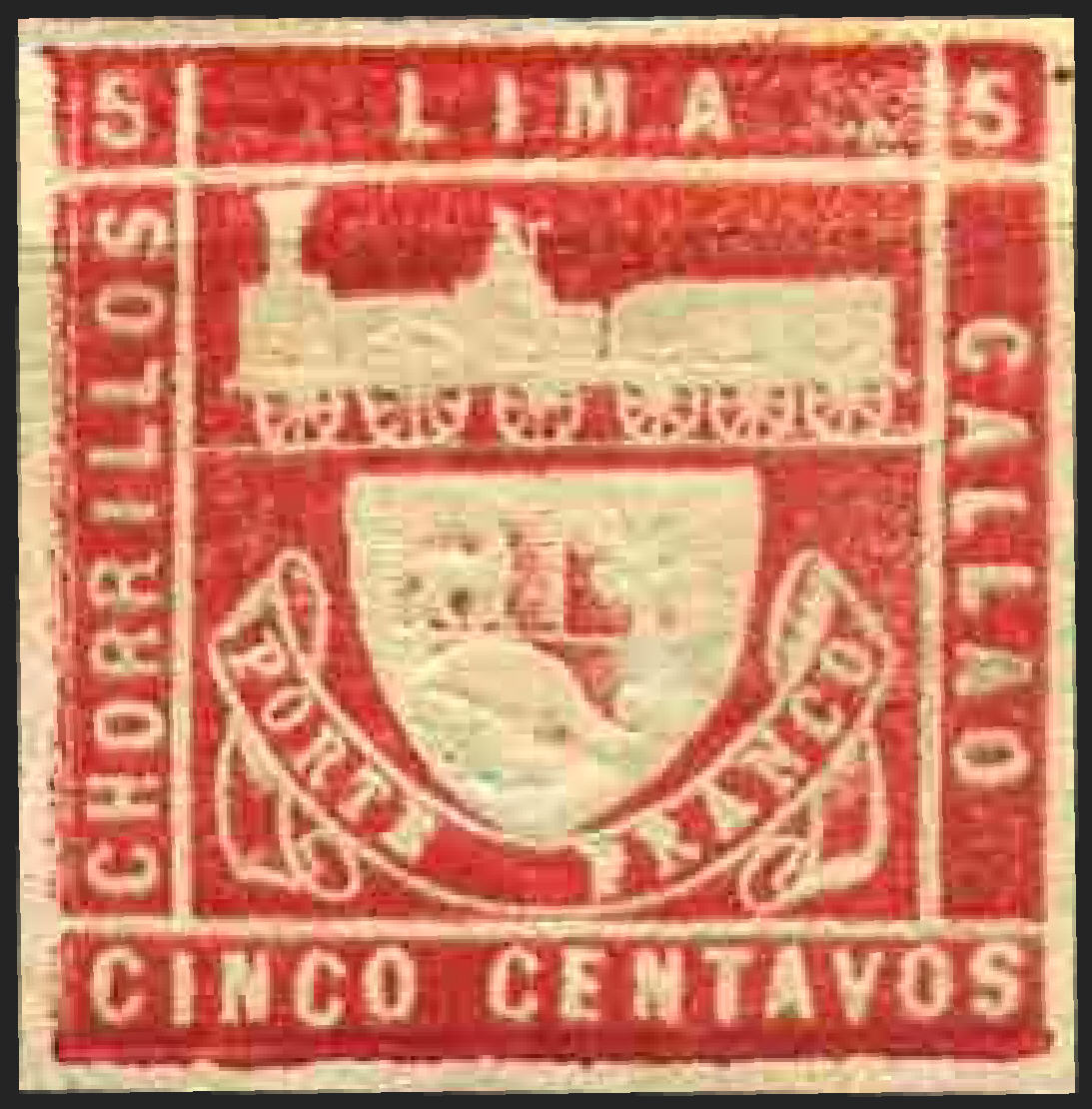 The world's first commemorative stamp, Peru (1870). All catalogues get the issue date of the Trencito wrong, Julian Lugo believes it was issued in April 1870. This is backed by expertly certified and acknowledged covers.